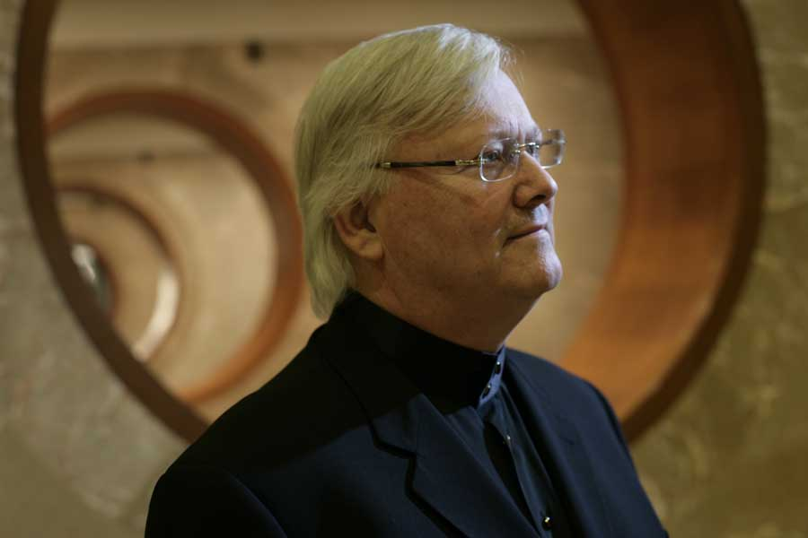 Adrian Smith